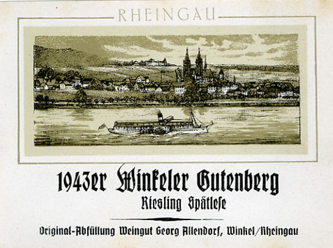 Wine label from a Riesling, 1943, view of the Rhine at Winkel, Germany.